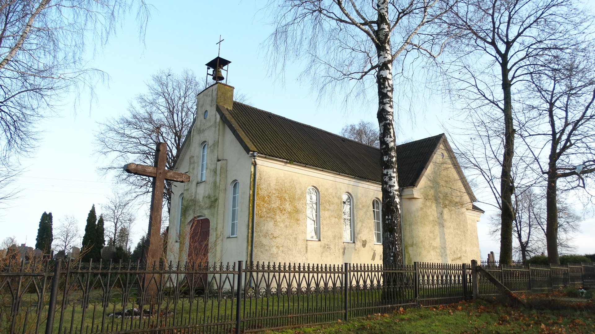 Cemetery chapel, Pagėgiai, Lithuania